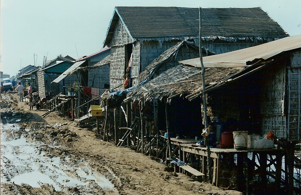 Huts in a village, Cambodia